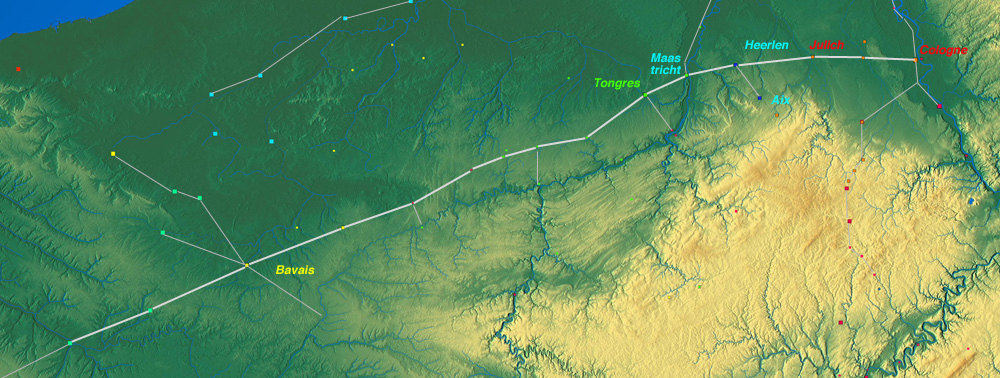 Via Belgica